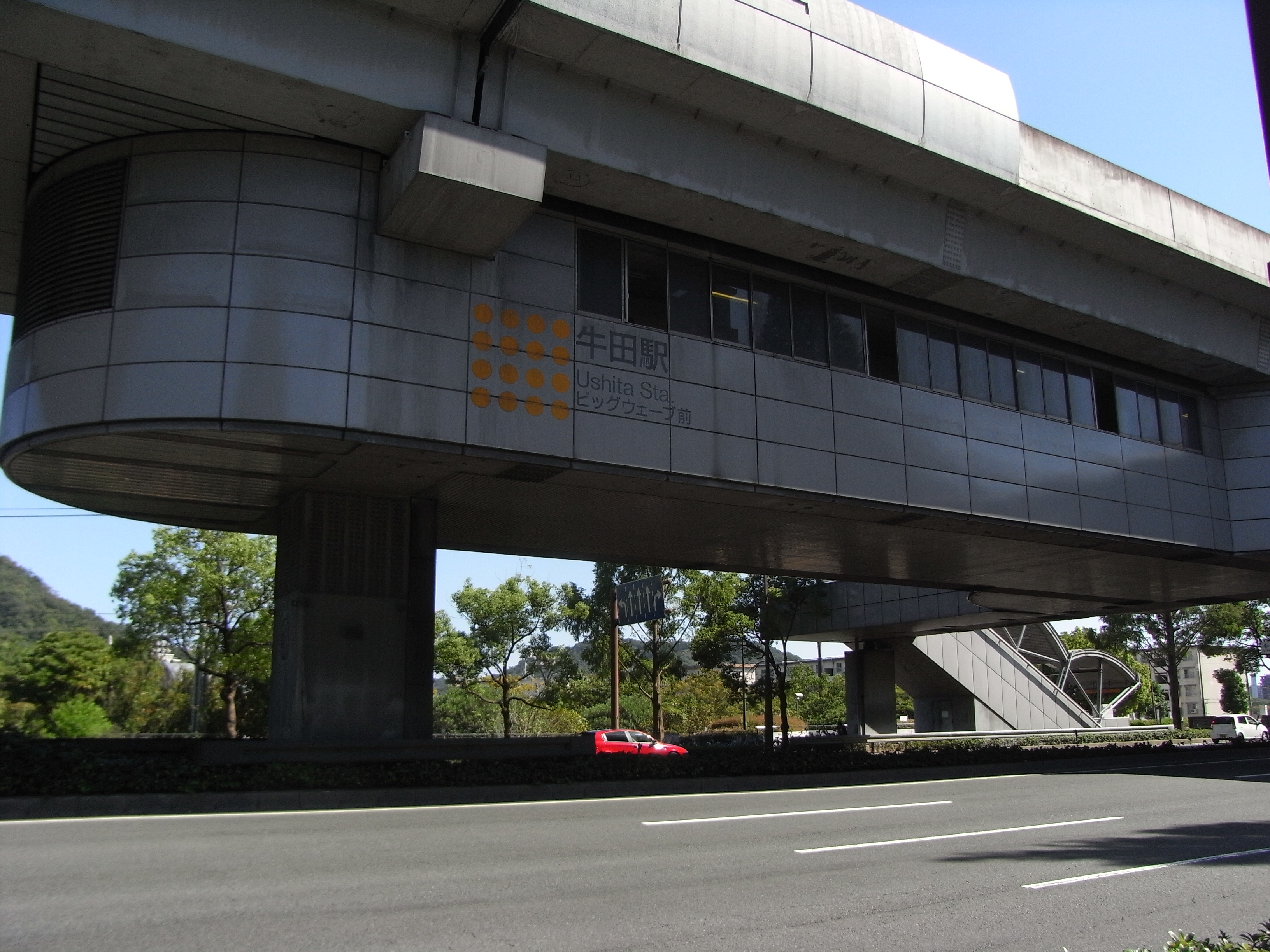 2009年9月20日、本人撮影 牛田駅 Description 牛田駅 GFDL,CC-BY-SA 3.0 Unported category:広島市の画像 category:鉄道駅画像 Category:広島高速交通の画像 牛田駅